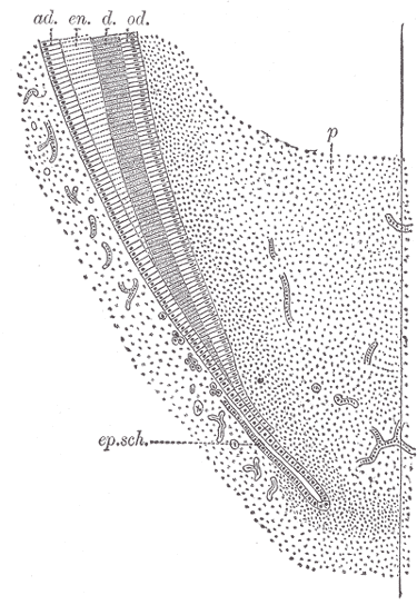 Longitudinal section of the lower part of a growing tooth, showing the extension of the layer of adamantoblasts beyond the crown to mark off the limit of formation of the dentin of the root. (Röse.) ad. Adamantoblasts, continuous below with ep.sch., the epithelial sheath of Hertwig. d. Dentin. en. Enamel. od. Odontoblasts. p. Pulp.